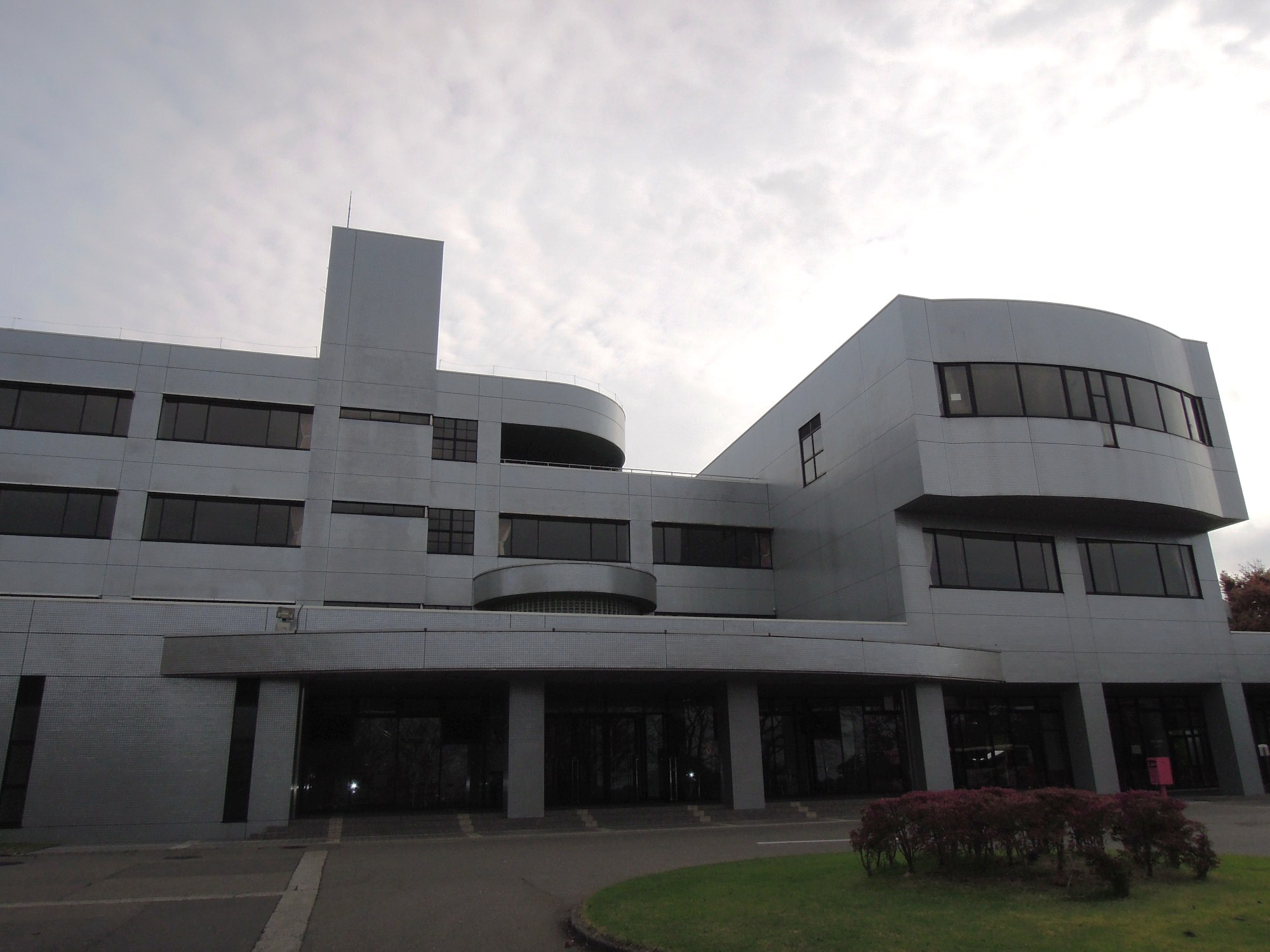 Taiyogaoka Building 1, Hokuriku University (Kanazawa, Ishikawa)